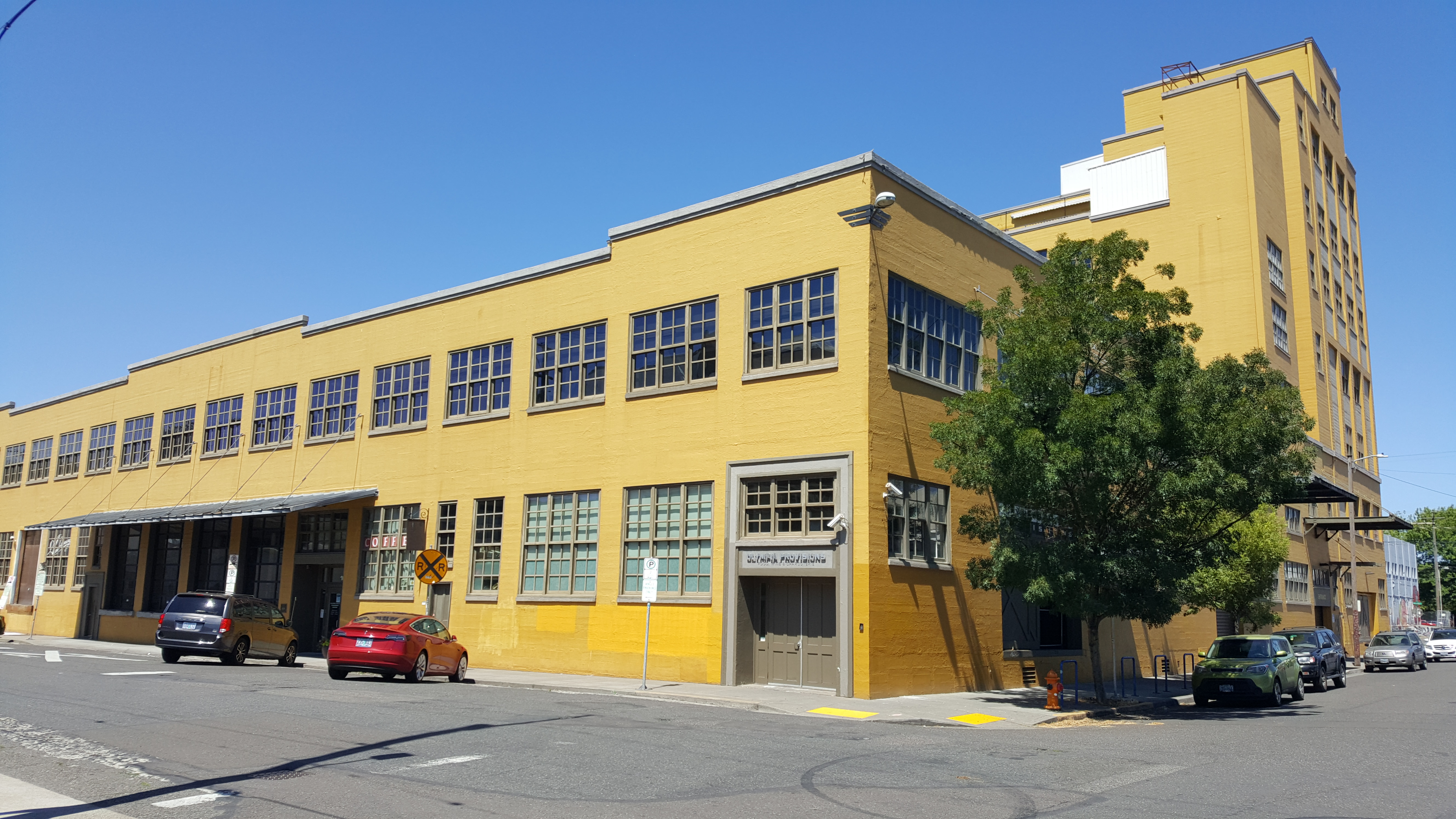 Portland, Oregon, July 25, 2020